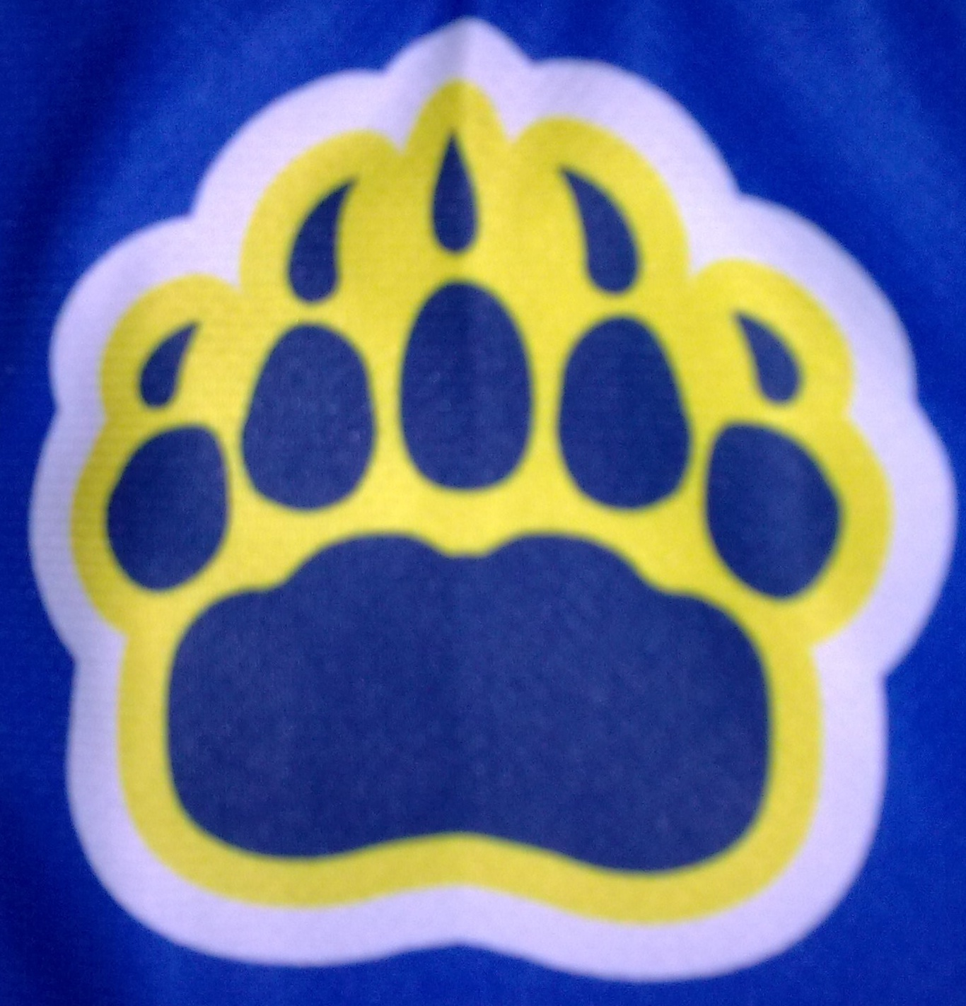 KHL Medveščak's alternate logo